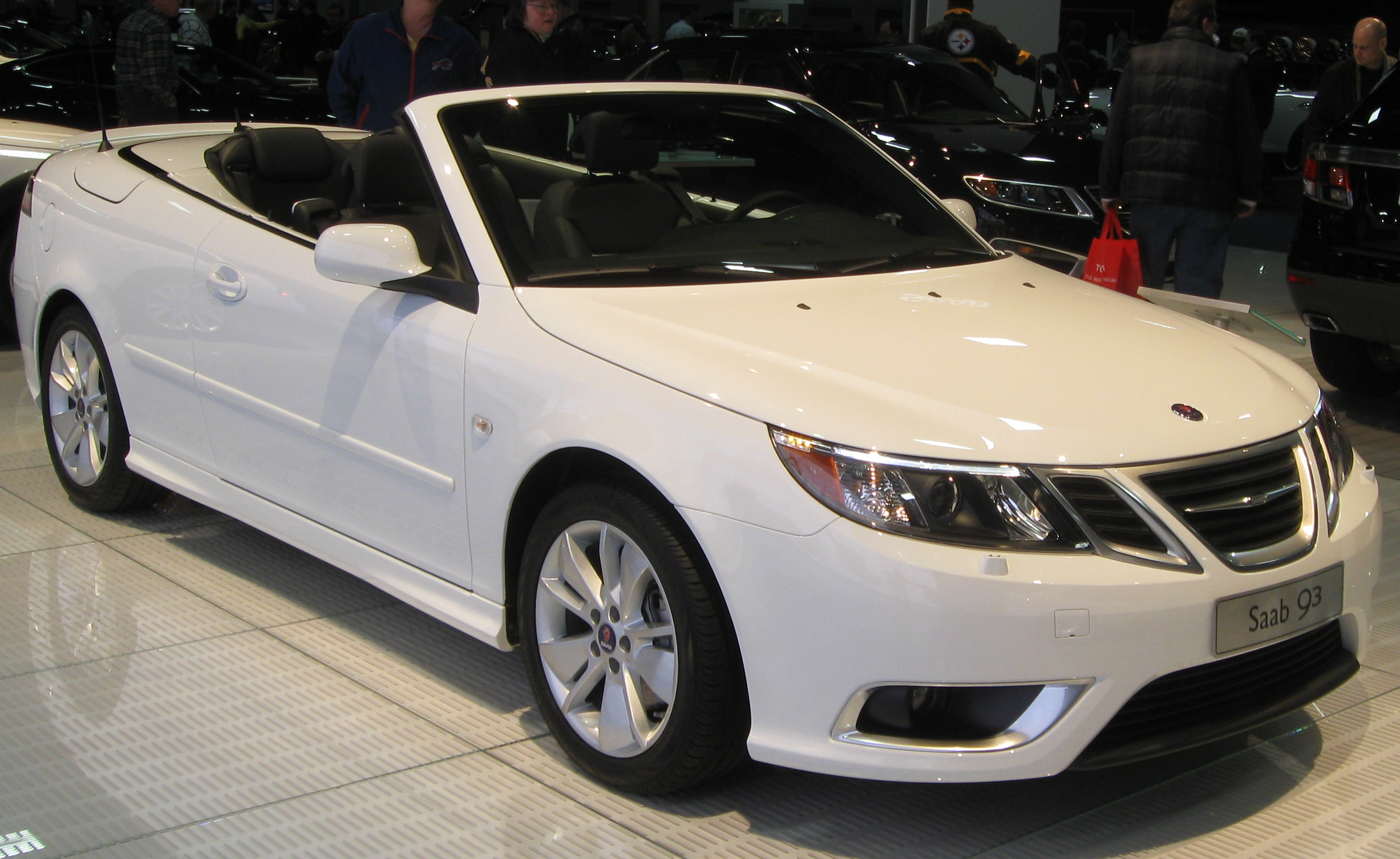 2011 Saab 9-3 photographed at the 2011 Washington (D.C.) Auto Show.